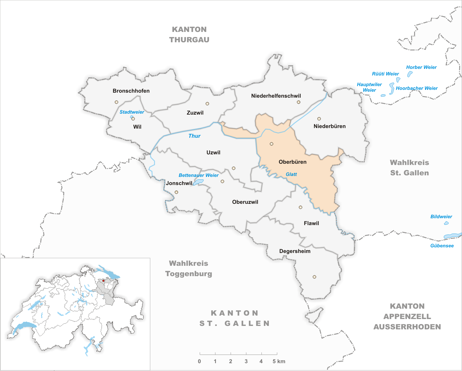 Municipality Oberbüren